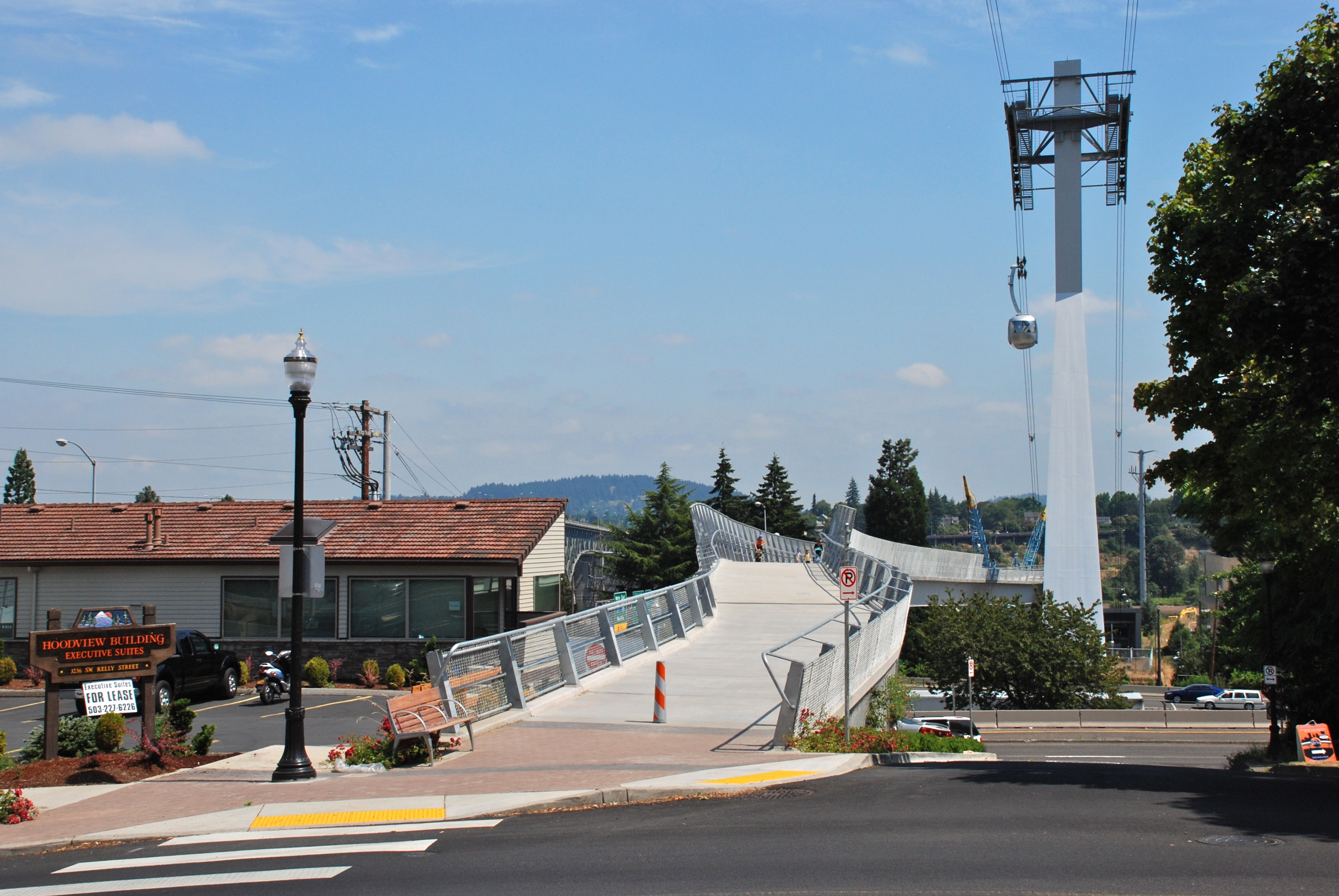 The west end of the Gibbs Street Pedestrian Bridge (over Interstate 5) in Portland, Oregon, viewed looking east from across Kelly Avenue, in the Lair Hill Neighborhood. At right is the central support tower of the Portland Aerial Tram, a 3,000-foot (1 km) cableway connecting Oregon Health & Science University (on Marquam Hill) with the South Waterfront District. The 700-foot (210 m) pedestrian bridge opened in July 2012.